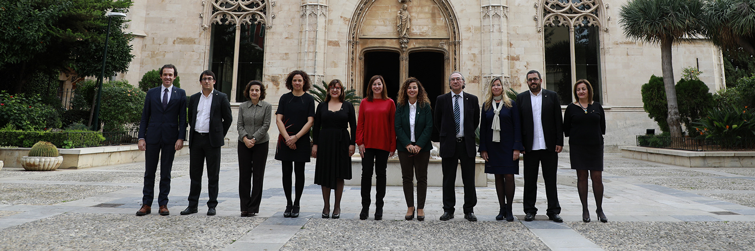 Group photo of all the members of the Government of the Balearic Islands after the remodeling of December 18, 2017 with the entrance of Bel Busquets as new Vice President and Minister of Innovation, Research and Tourism.